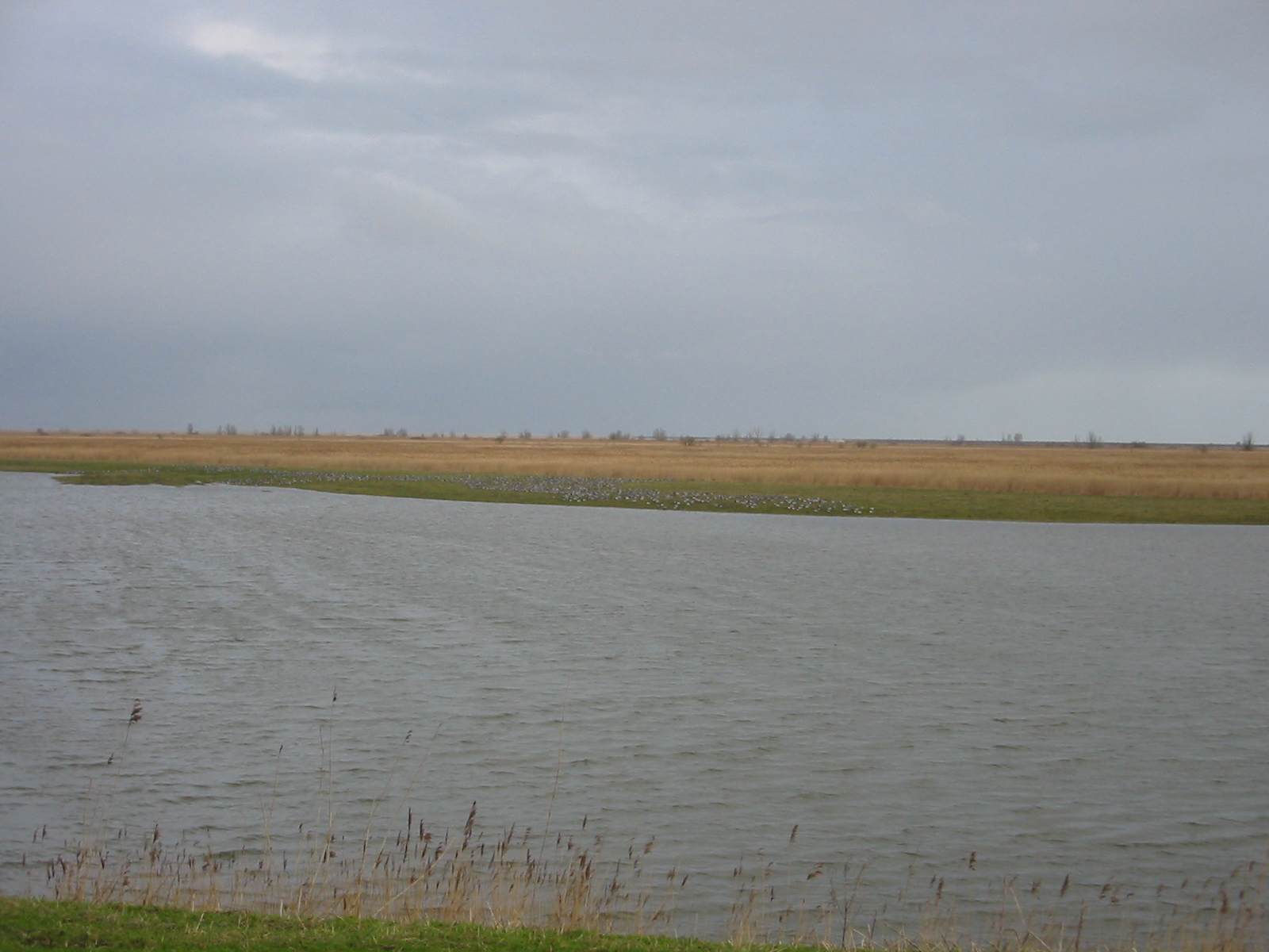 Reed bed.